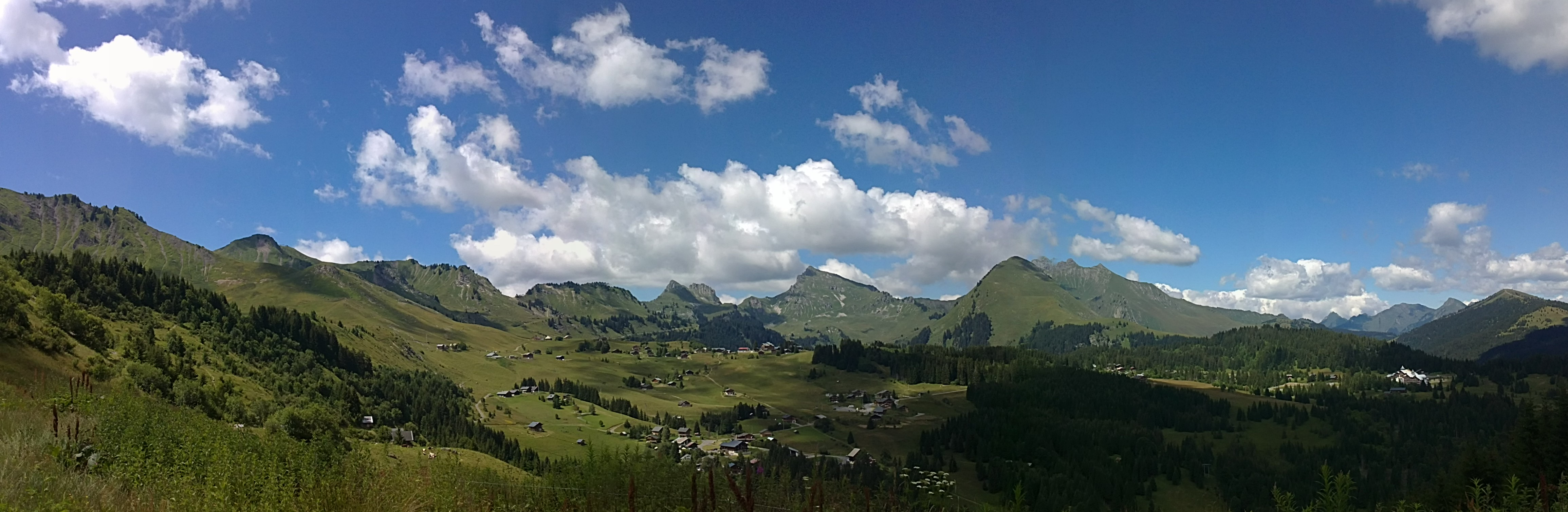 Panoramic view of "Le Praz-de-Lys" from the place called "Le Planey"